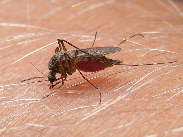 Theobaldia annulata